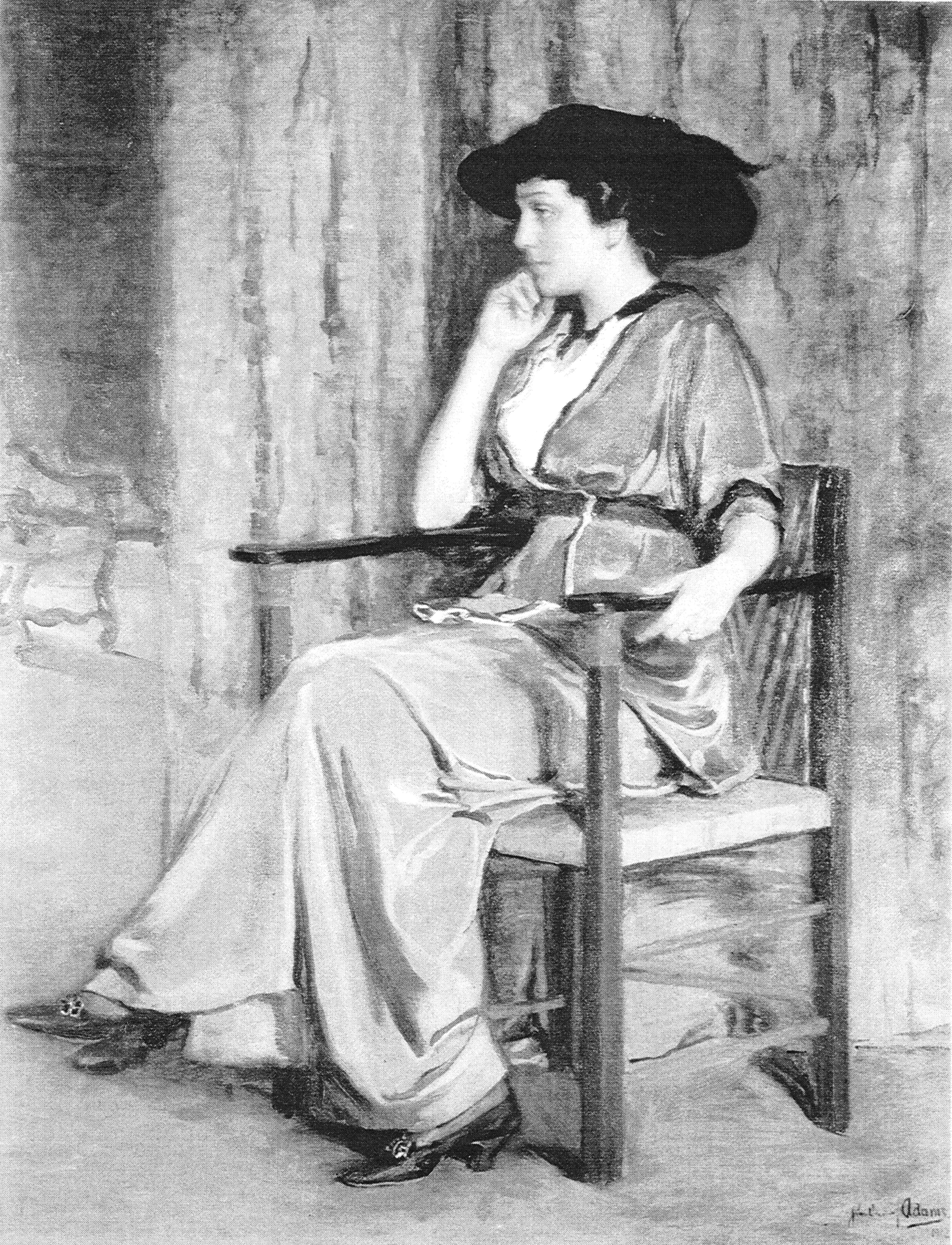 Portrait Stefanie Adams, wife of the painter John Quincy Adams. Oil on canvas, 175 x 141